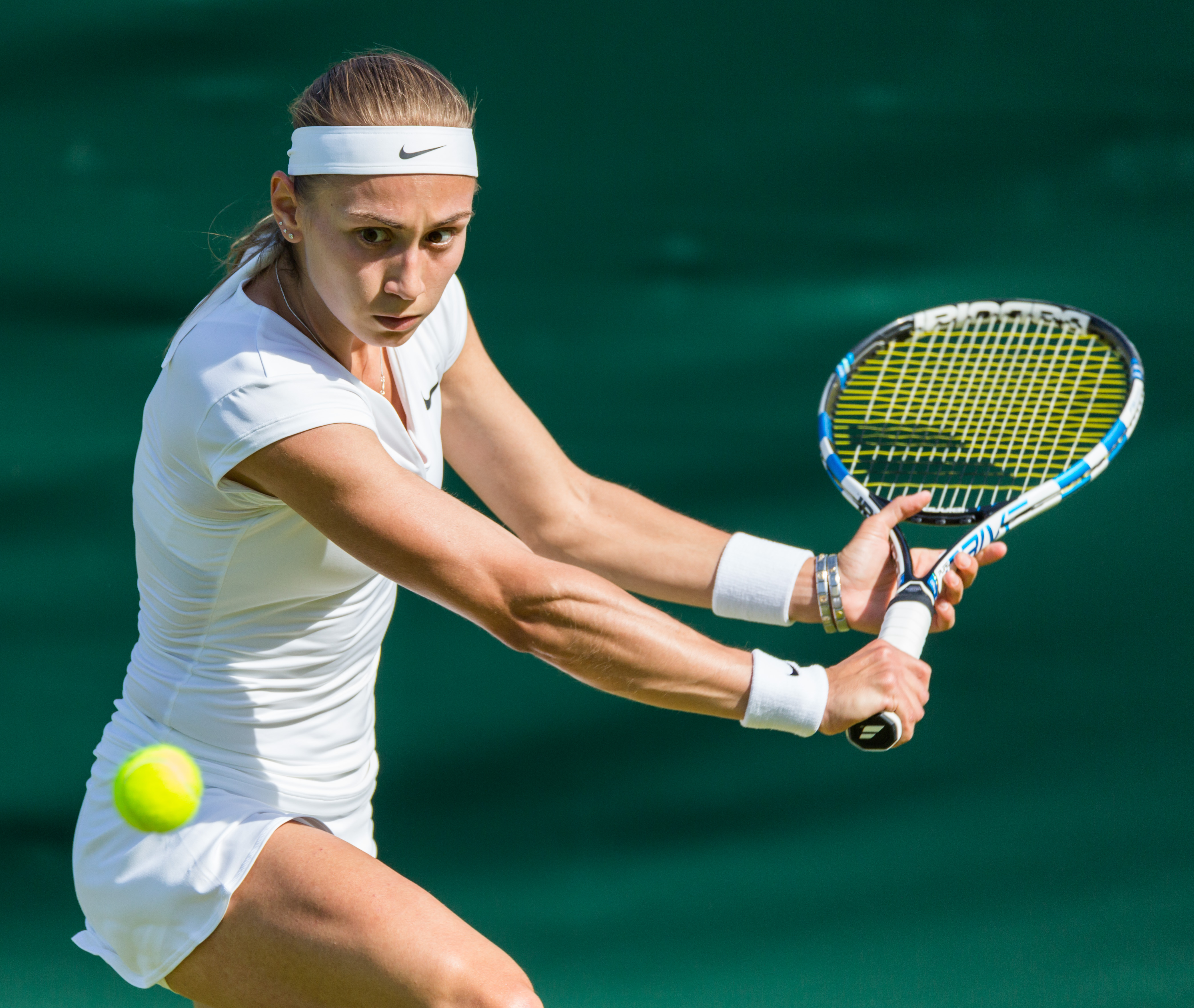 Aleksandra Krunić competing in the first round of the 2015 Wimbledon Championships against Roberta Vinci.